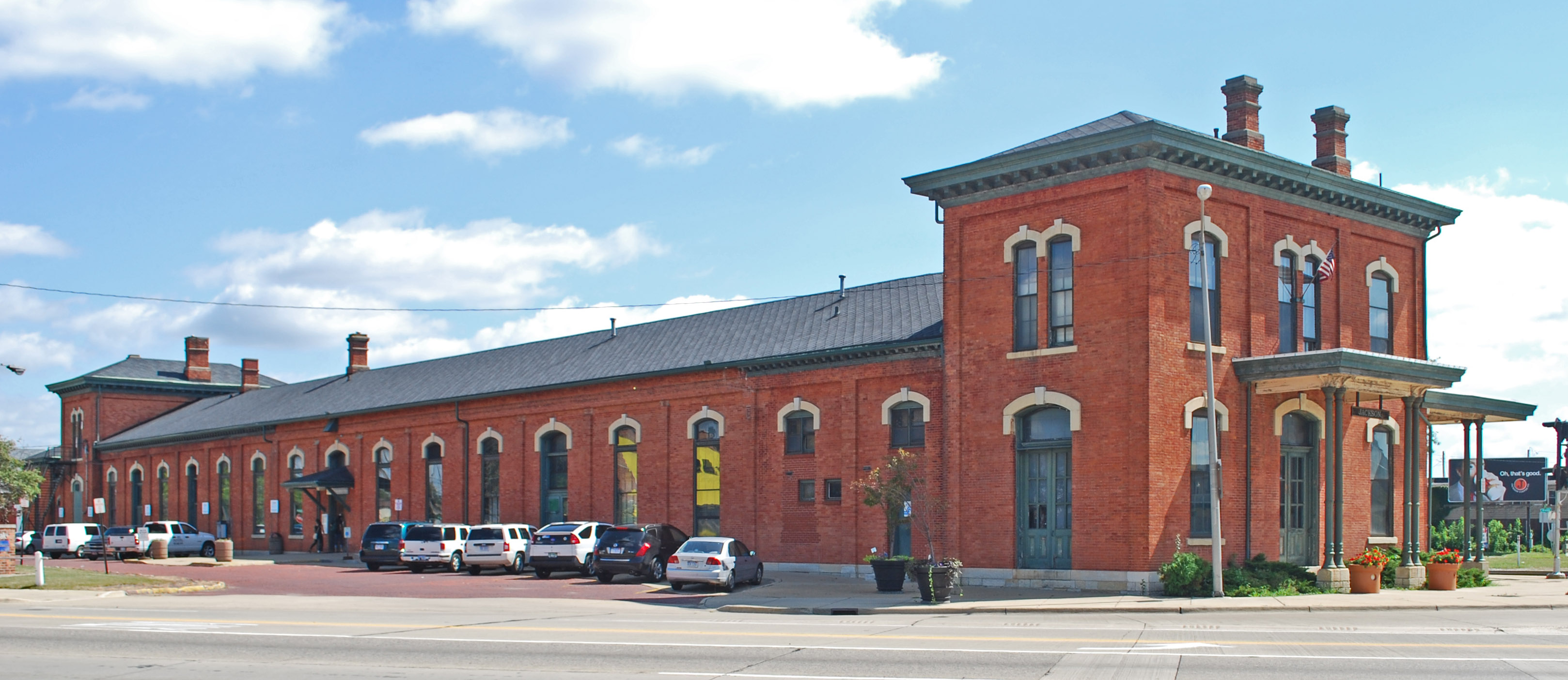 Michigan Central Railroad Jackson Depot, Jackson MI